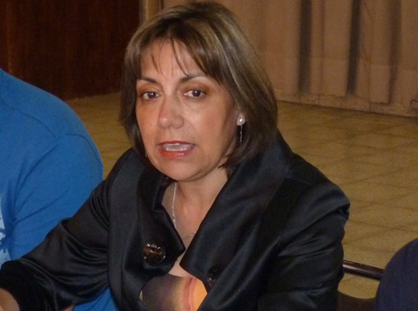 Susana Verdugo, Governor of Limari Province, Chile.